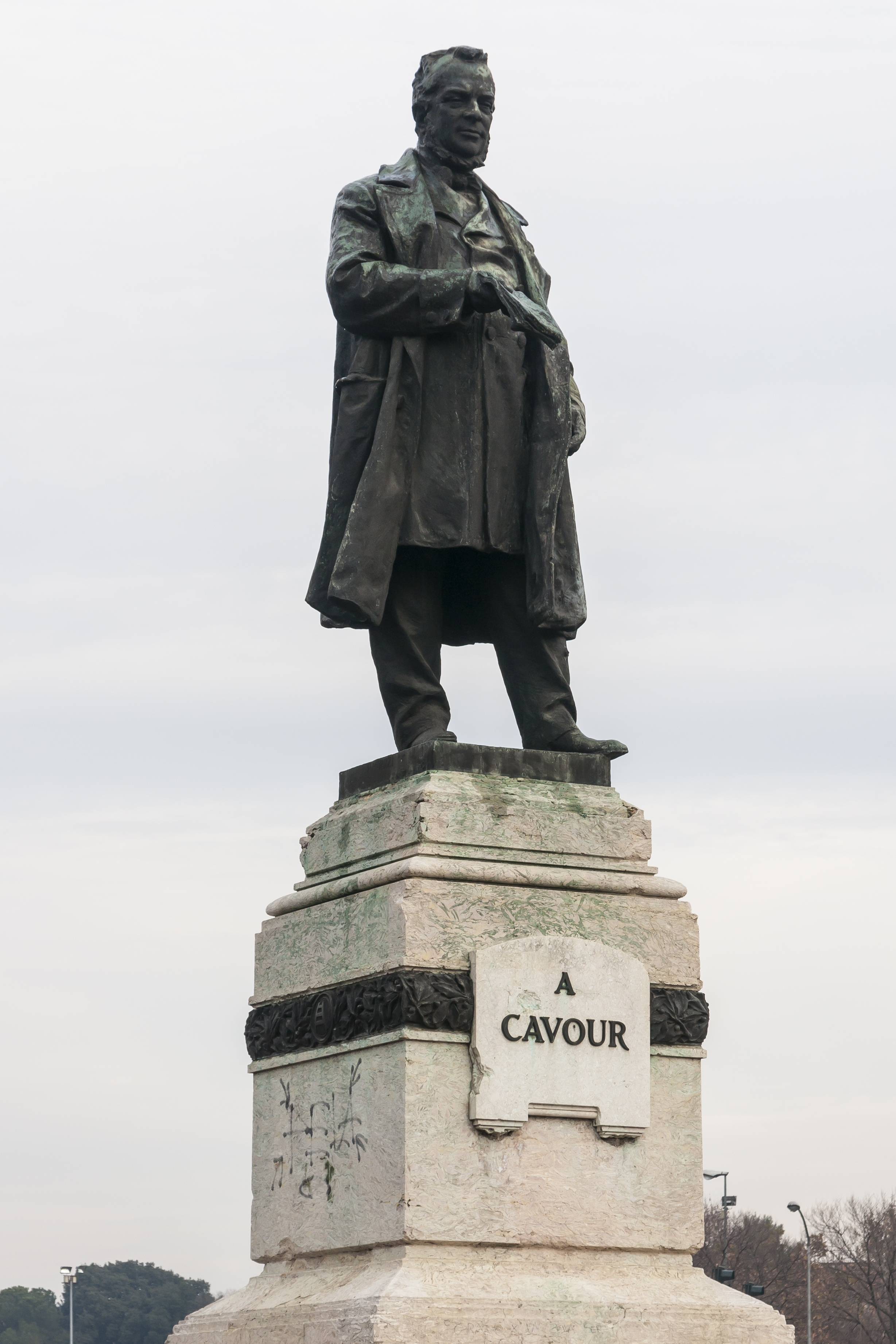 Cavour-Statue in front of the railway station in Verona, Italy